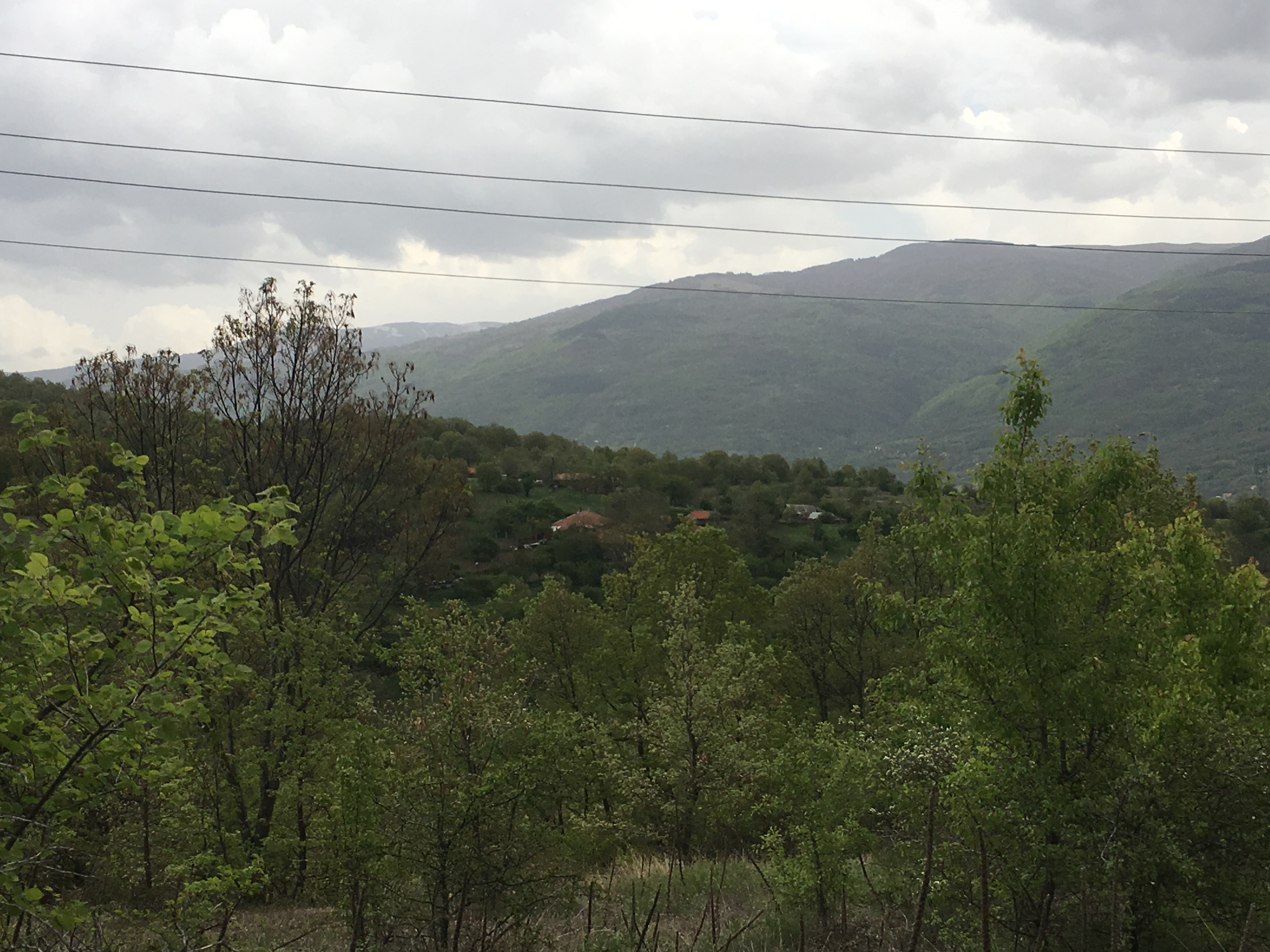 A view of the village of Dlabočica